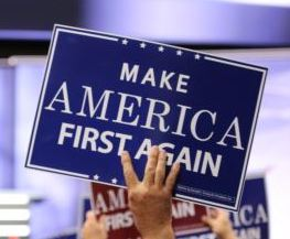 A delegate holds up a sign during day 3 of the 2016 RNC